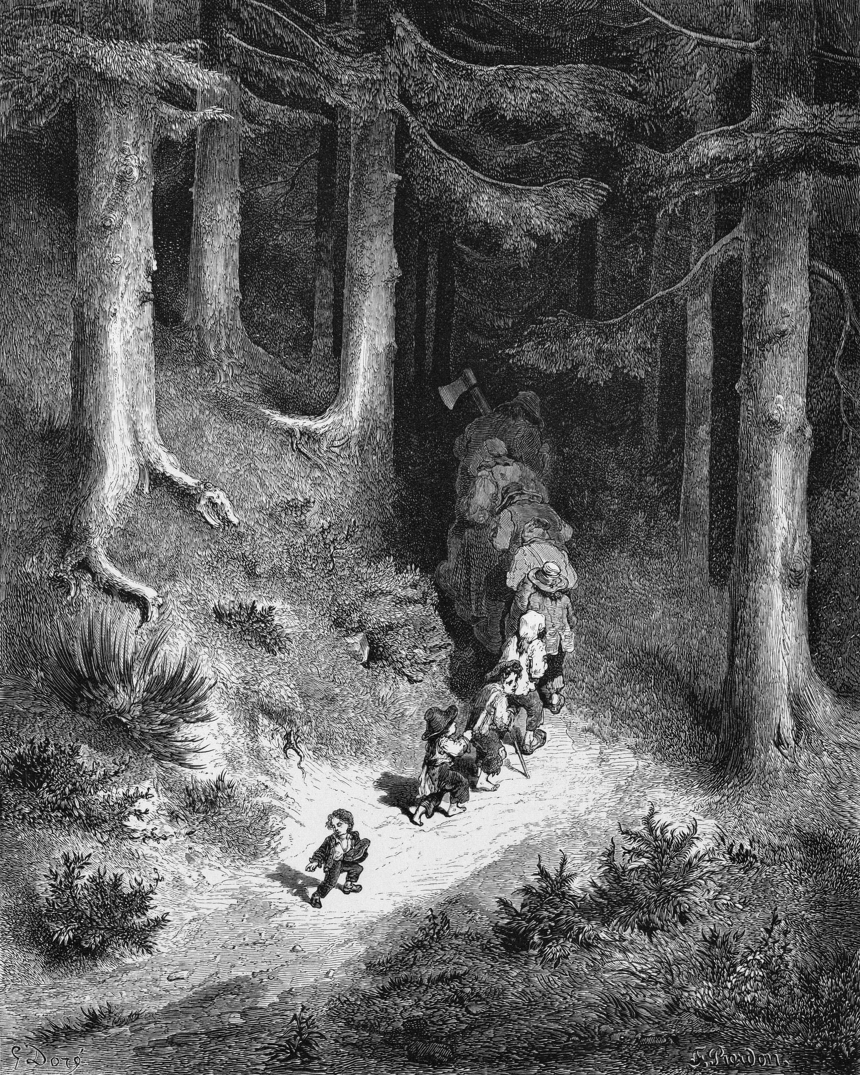 Gustave Doré, gravure sur bois pour Les contes de Perrault, Paris, Hetzel, 1867